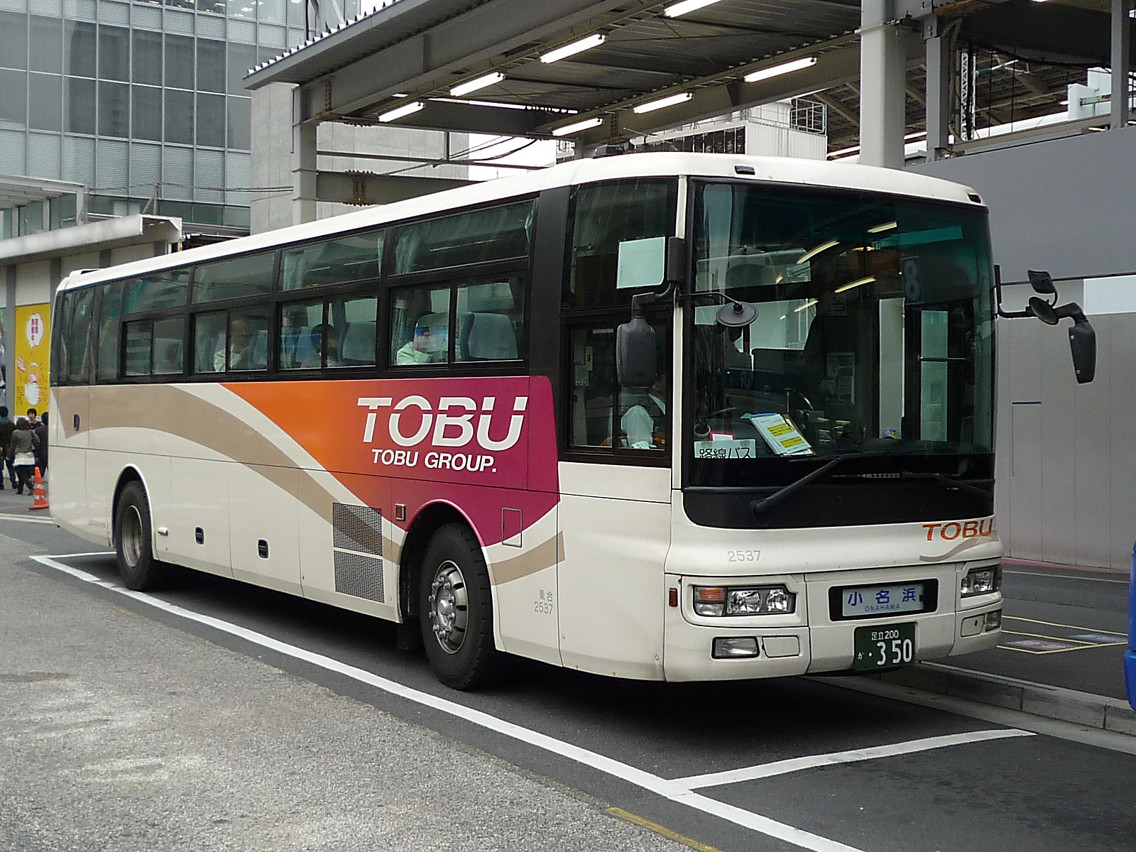 Tobu bus Central Highwaybus Tokyo - Onahama(Iwaki city,Fukushima)